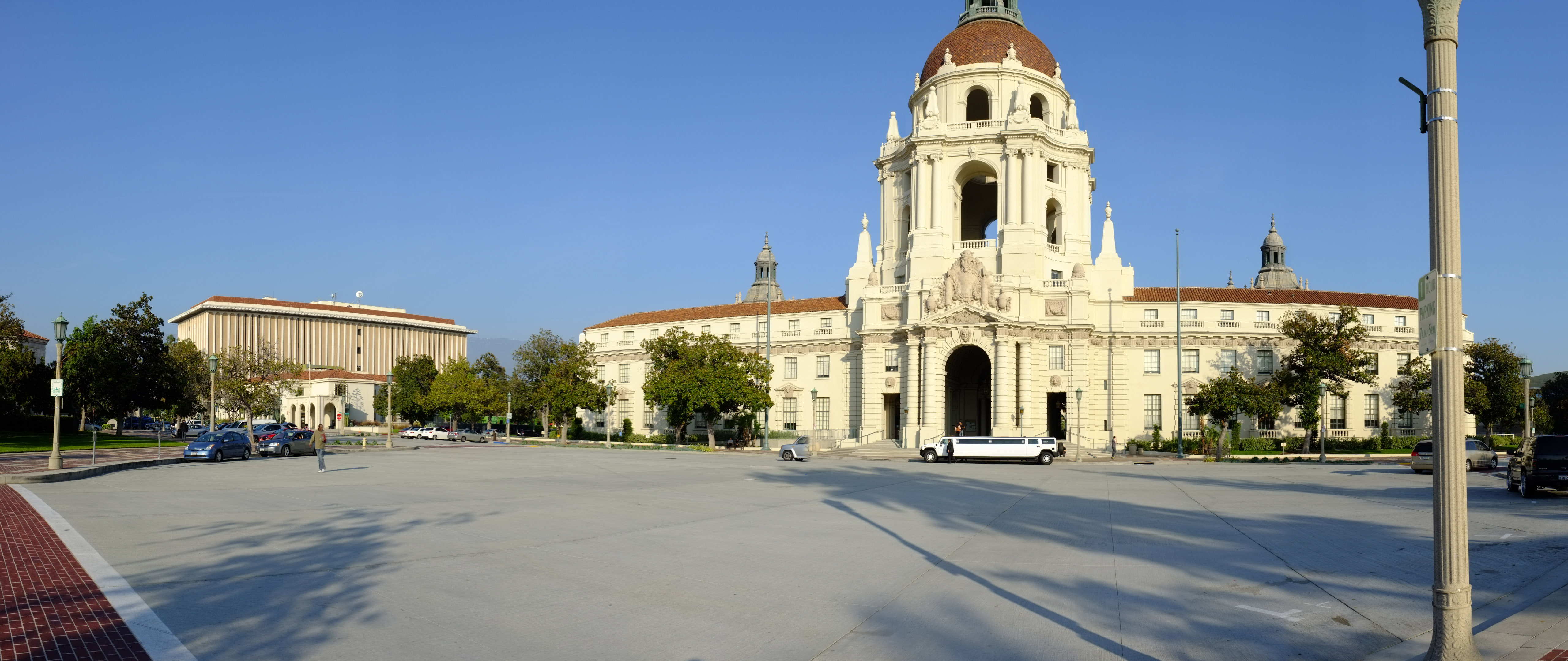 A Panorama of Pasadena City hall taken near dusk from the west side. Some minor work was done in photoshop to remove some prominent panorama glitches and a handful still remain.